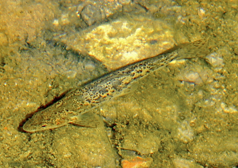 Large-spot Barbel or Southern Barbel (Barbus balcanicus), CroatiaHrvatski: Potočna mrena (Barbus balcanicus)